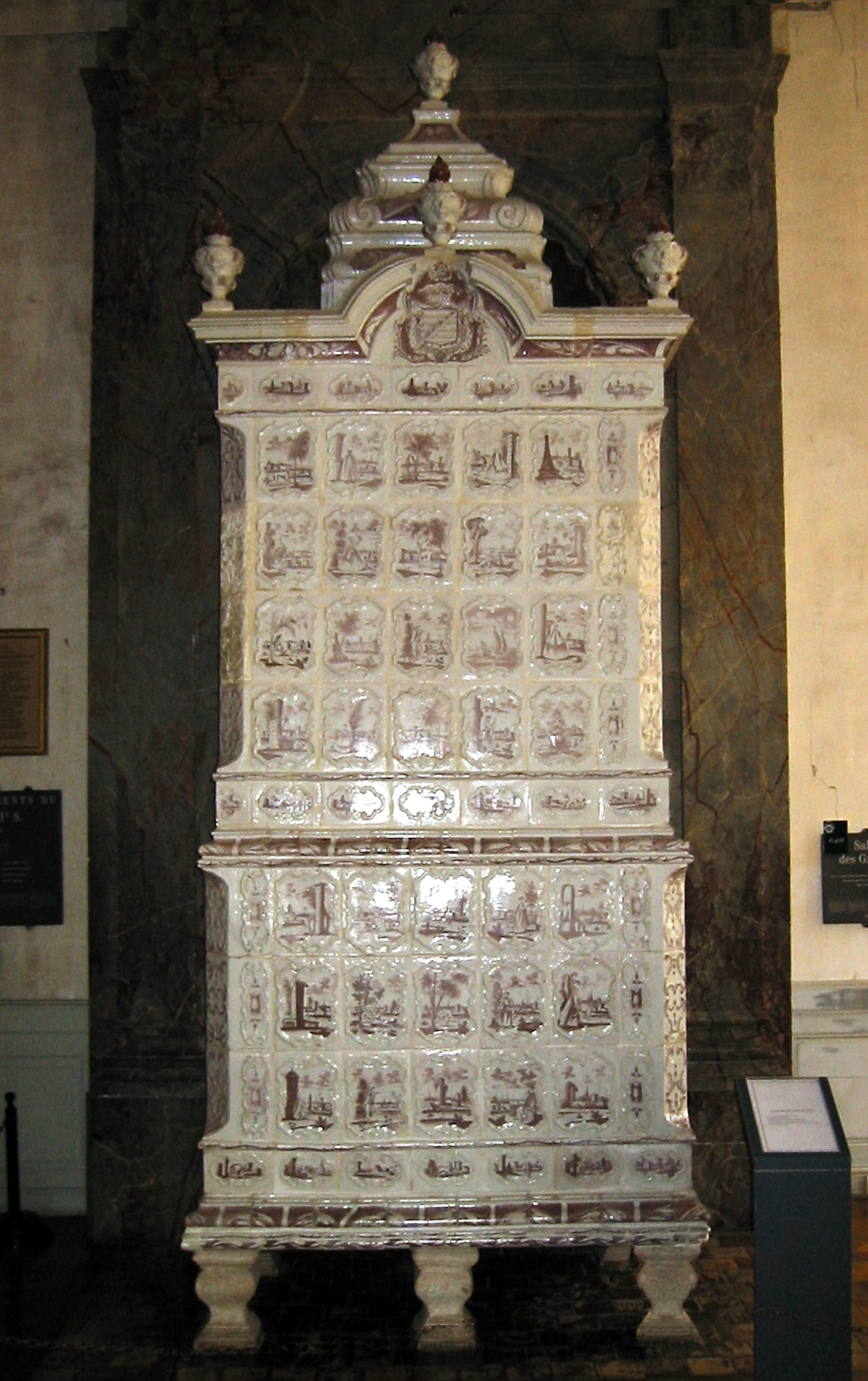 Tiled Faience-stove at Château de Chambord in France. Dieser Ofen besteht natürlich nicht aus Porzellan, sondern aus Fayence und ist in Danzig gefertigt worden. Wie kommt man auf Meißner Porzellan???? (Rainer Richter, Dresden)